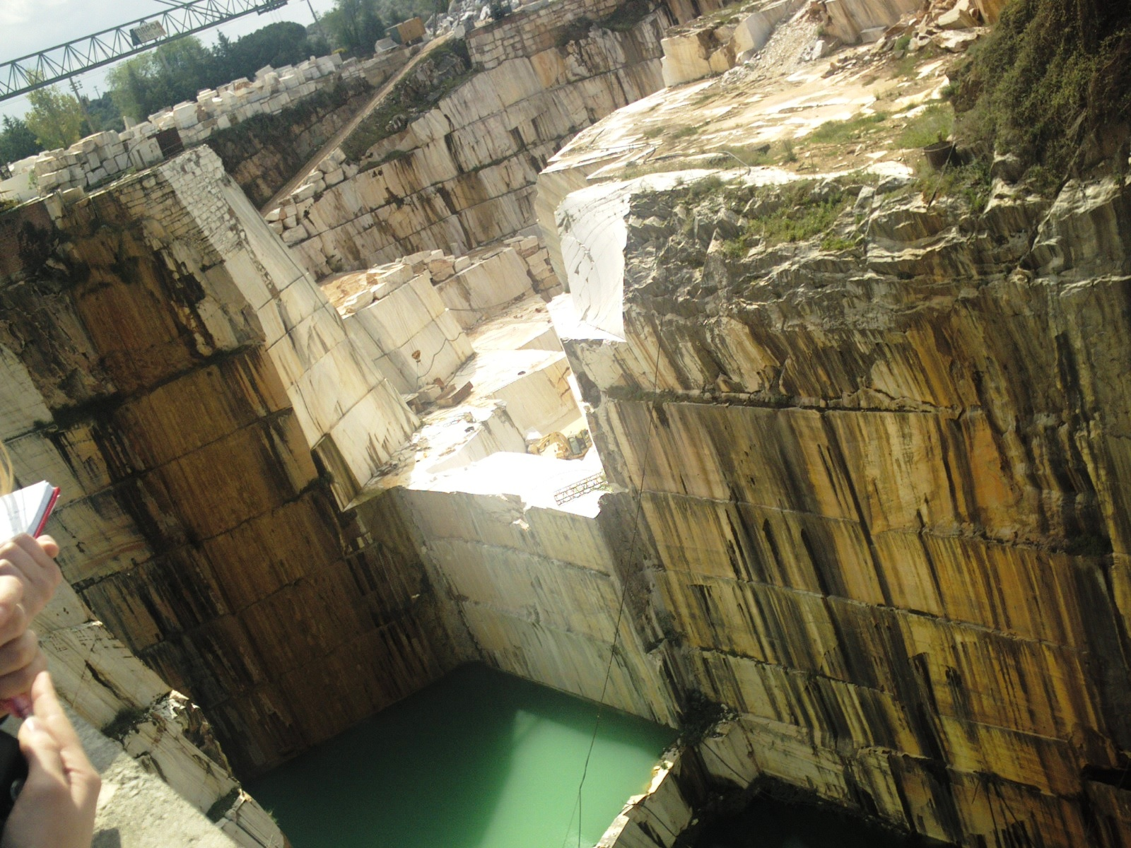 Mine of marble in Estremoz, Portugal